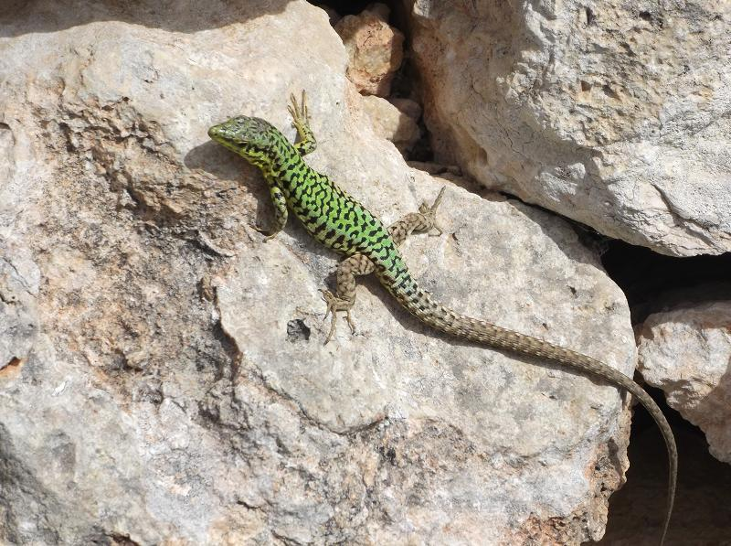 Filfola Lizard or Maltese Wall Lizard (Podarcis filfolensis ssp. maltensis) basking in the sun, on Gozo island, Republic of Malta.